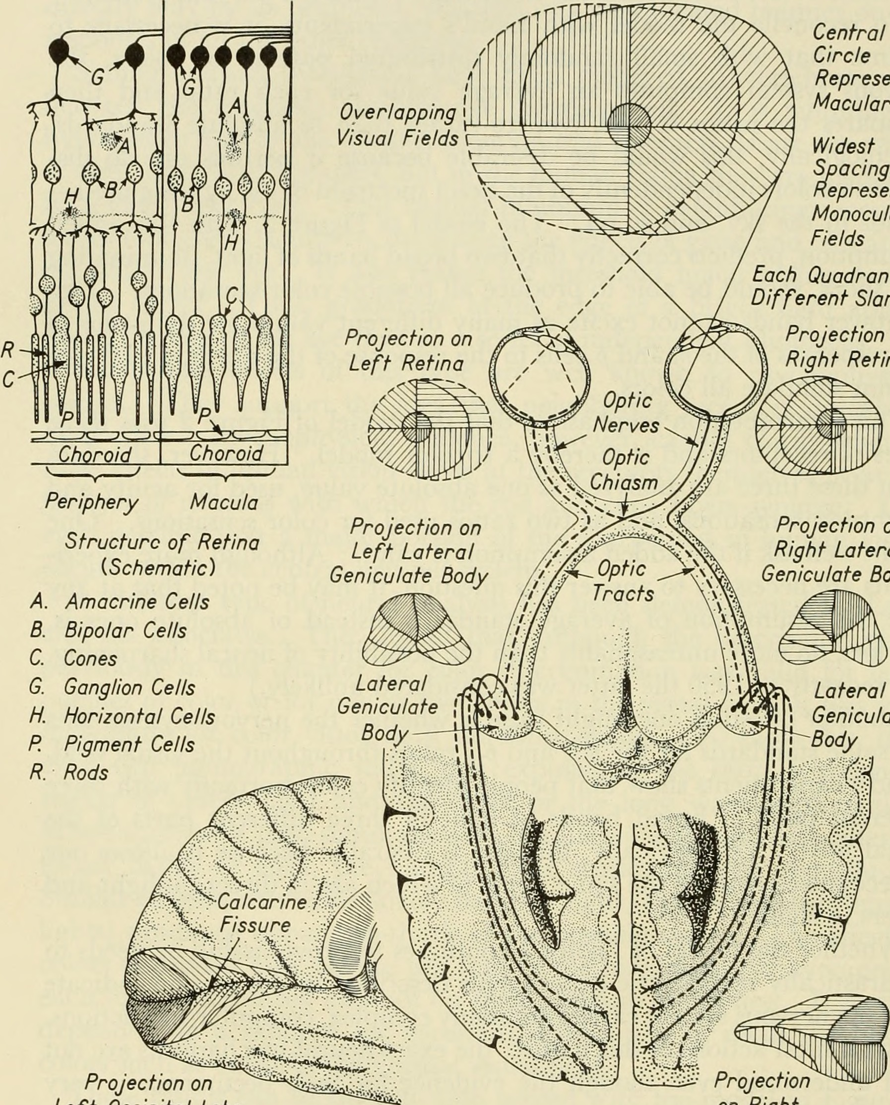 Title: Biophysical science Year: 1962 (1960s) Authors: Ackerman, Eugene, 1920- Subjects: Biophysics Publisher: Englewood Cliffs, N. J. , Prentice-Hall Text Appearing Before Image: 134 Neural Aspects of Vision \1 : 5 central nervous system is shown in Figure 5. It should be noted that responses from either eye for a given area in the visual field eventually Central Circle Represents Macular Zone Widest Spacings Represent Monocular Fields Each Quadrant a Different Slant of Line Projection on Right Retina Text Appearing After Image: A. Amacrine Cells B. Bipolar Cells C Cones G. Gang/ion Cells H. Horizontal Cells P. Pigment Cells R. Rods Projection on Right Lateral Geniculate Body Lateral Geniculate Body 'Hah:'::- â .â¢:,':'&!&Zi Projection on ^~***iziv*j.i:^ Left Occipital Lobe Projection on Right Occipital Lobe Figure 5. Neural pathways of vision in the central nervous system. Copyright The CIBA Collection of Medical Illustrations, by Frank H. Netter, M.D., Vol. 1, "The Nervous System," 1953.